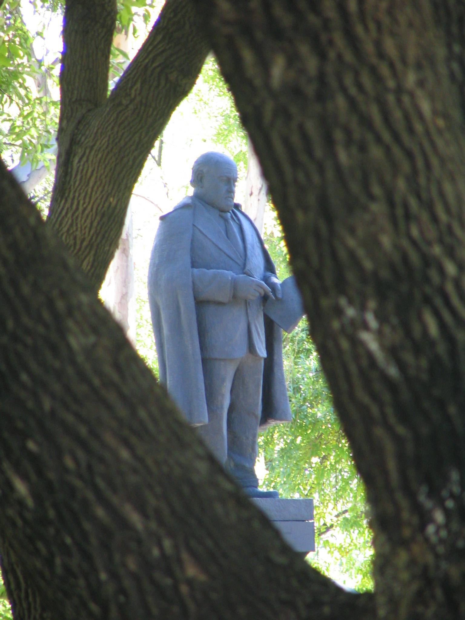 Sculpture of Alfonso Reyes, Mexican Writer. This statue is placed in a public Park in Monterrey, Mexico therefore is a Public Domain piece